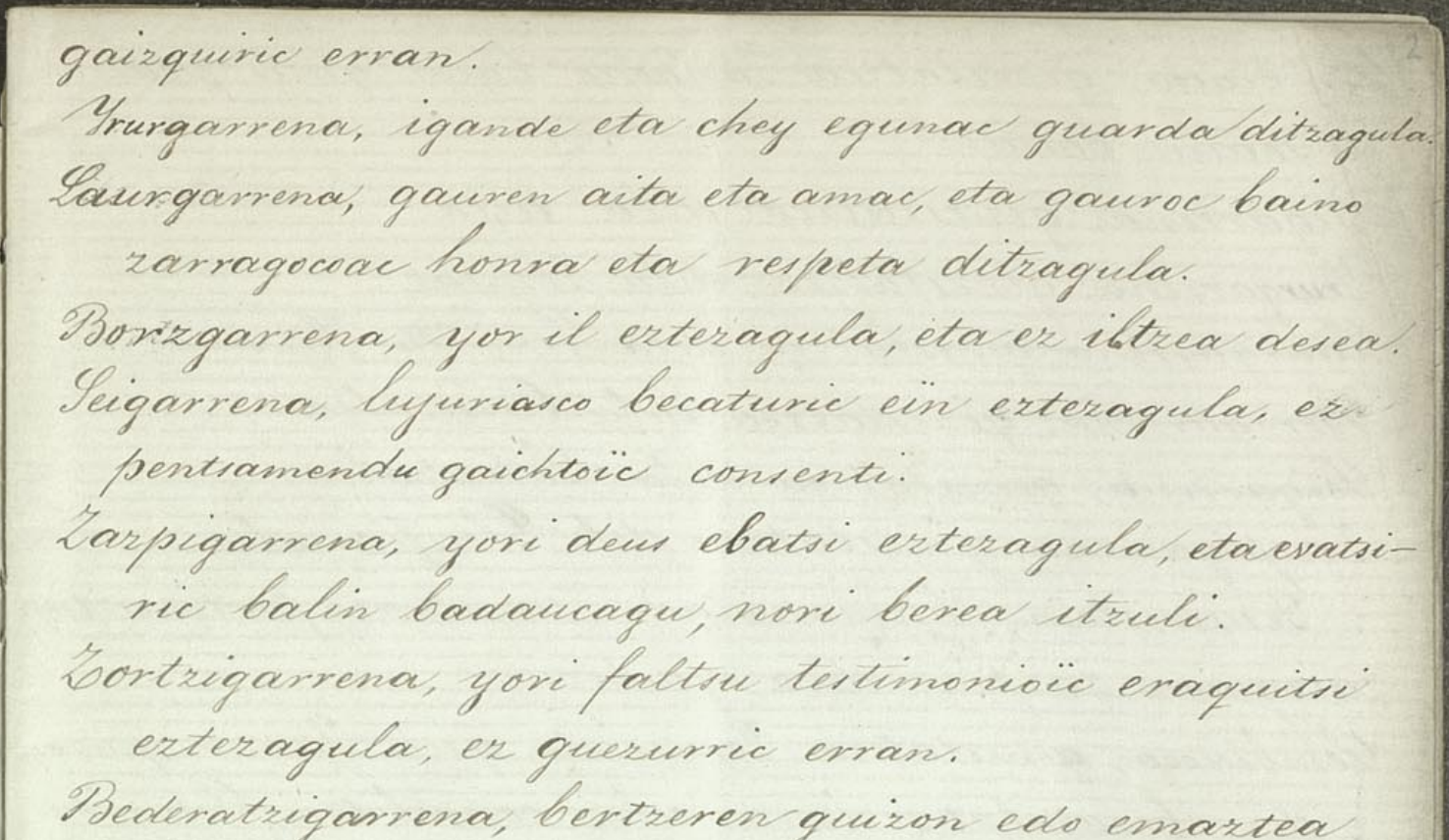 Ten Commandments in Aezkoa Basque dialect, gathered by Louis Lucien Bonaparte in the 19th century. Partial image, commandments 3 to 8 listed.